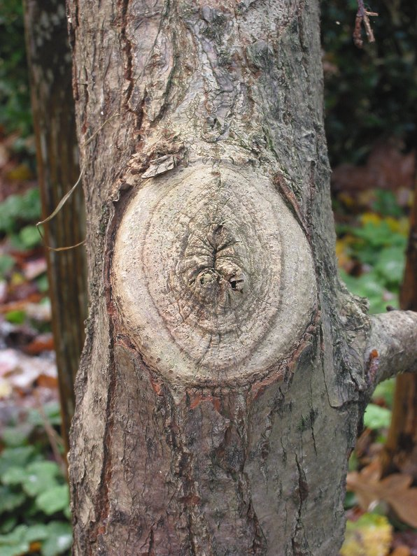 wound occlusion on an oak